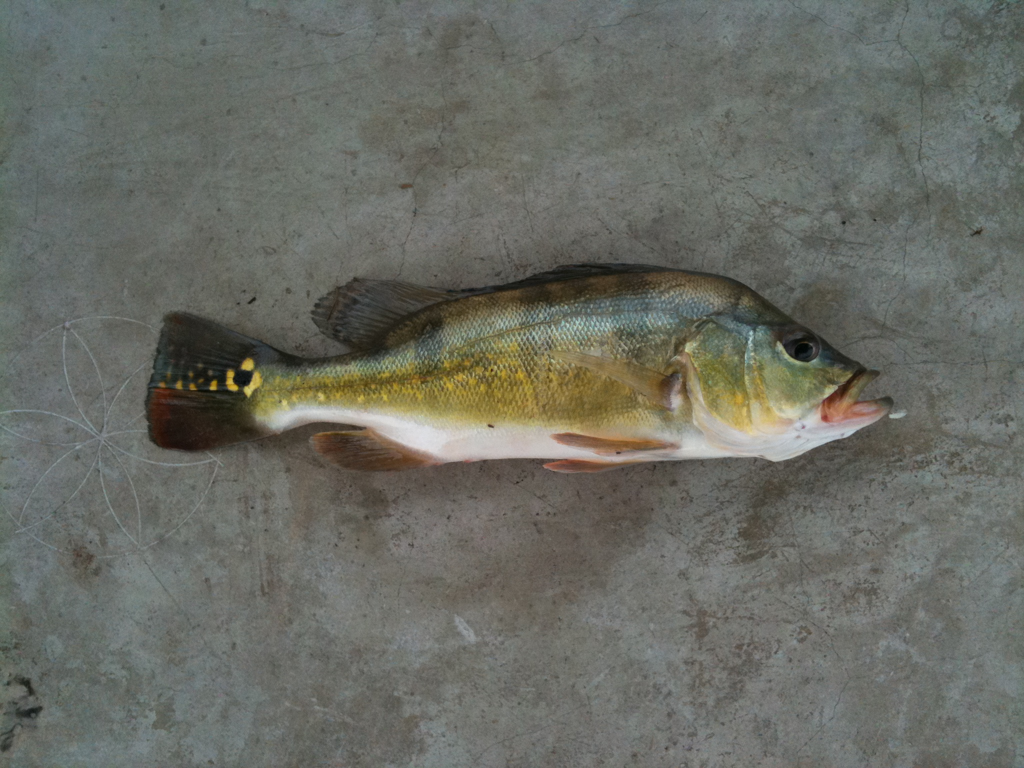 A peacock bass (Cichla) caught at Jurong Lake in Jurong East, Singapore, using a rubber lure.